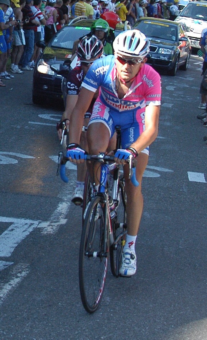 Marzio Bruseghin at stage 7 of the Tour de France 2007 on the Col de la Colombière.